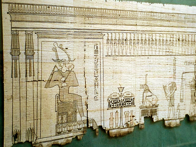 Antique papyrus, showing the god Osiris and the weighing of the heart. Egyptian Museum, Cairo, Egypt Photo taken by Hajor, Dec.2002. Released under cc.by.sa and/or GFDL.